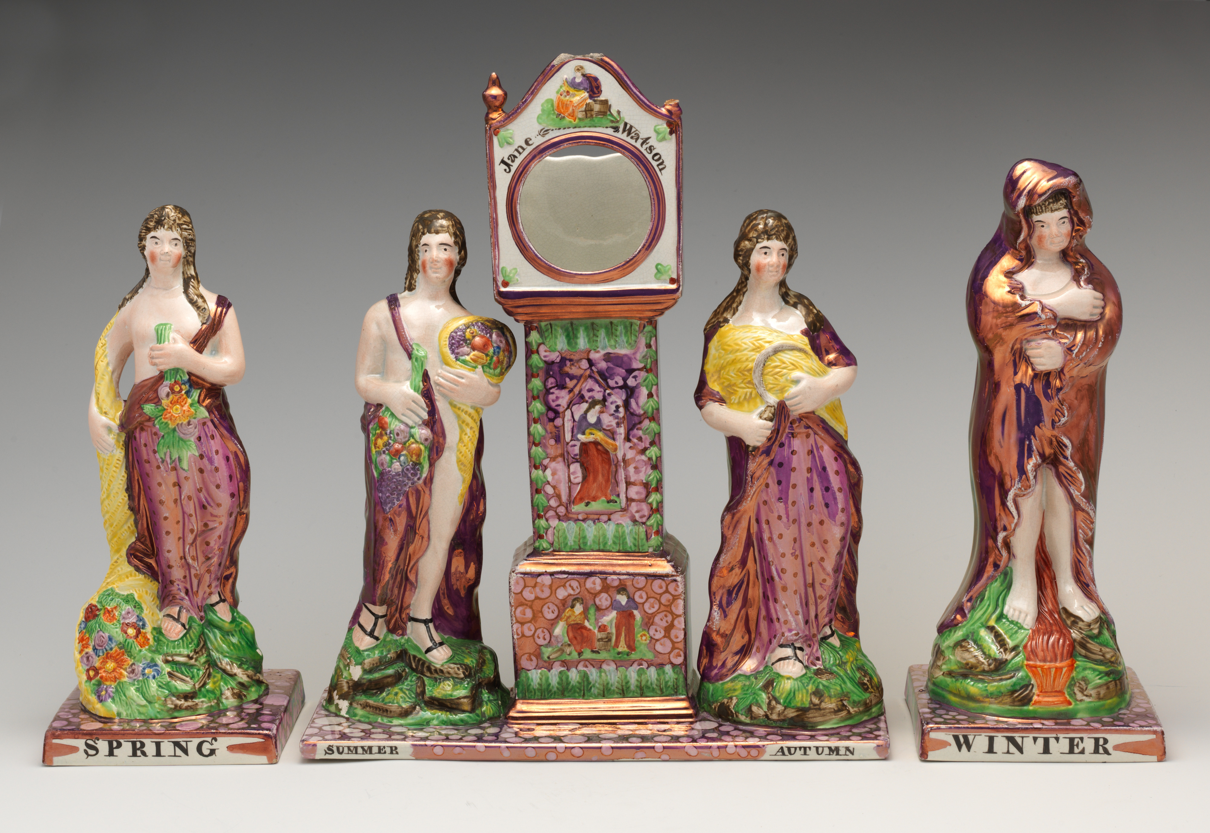 British, Sunderland; Chimneypiece; Ceramics-Pottery